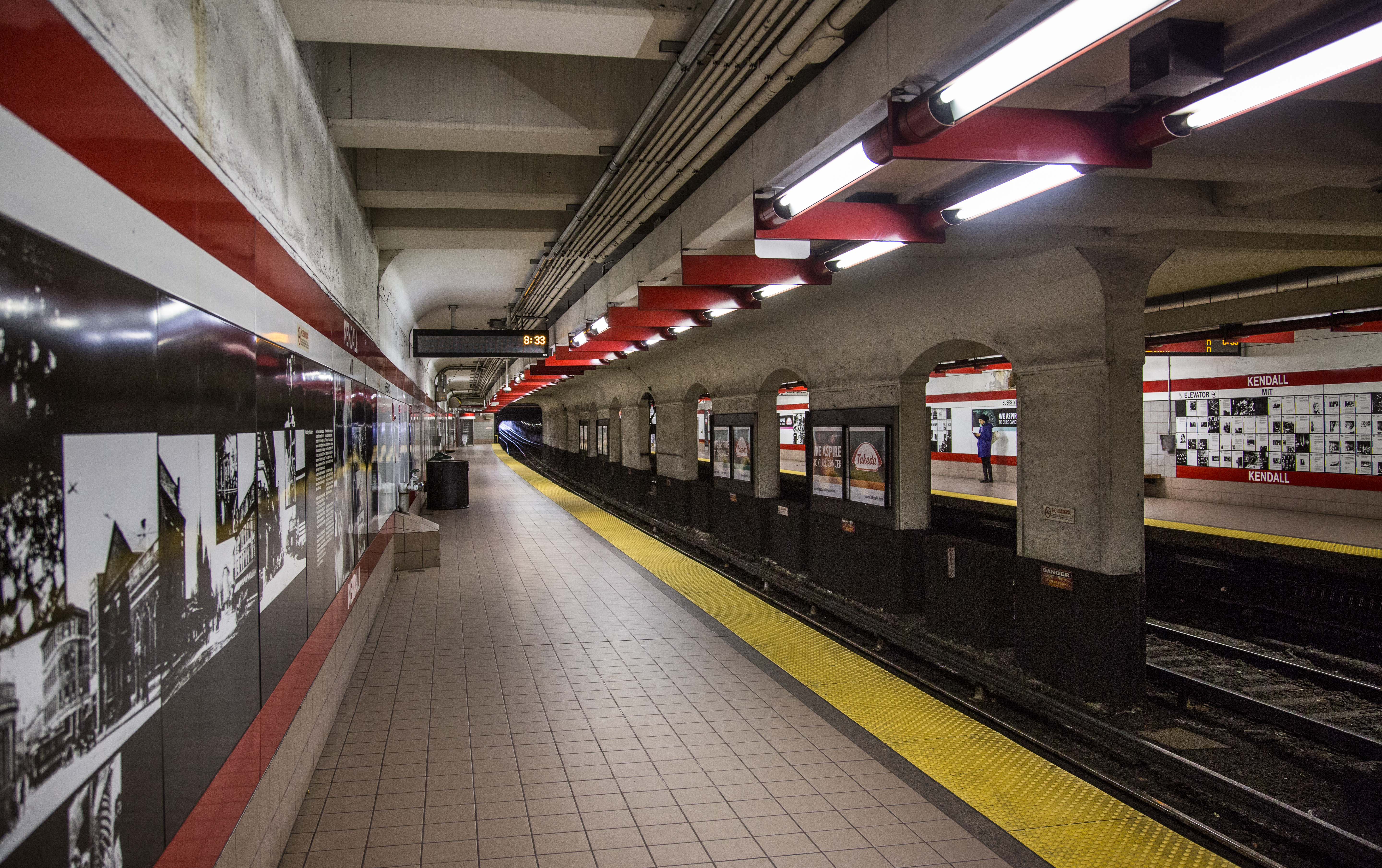 Facing inbound from the outbound platform at Kendall/MIT station in Cambridge, Massachusetts.